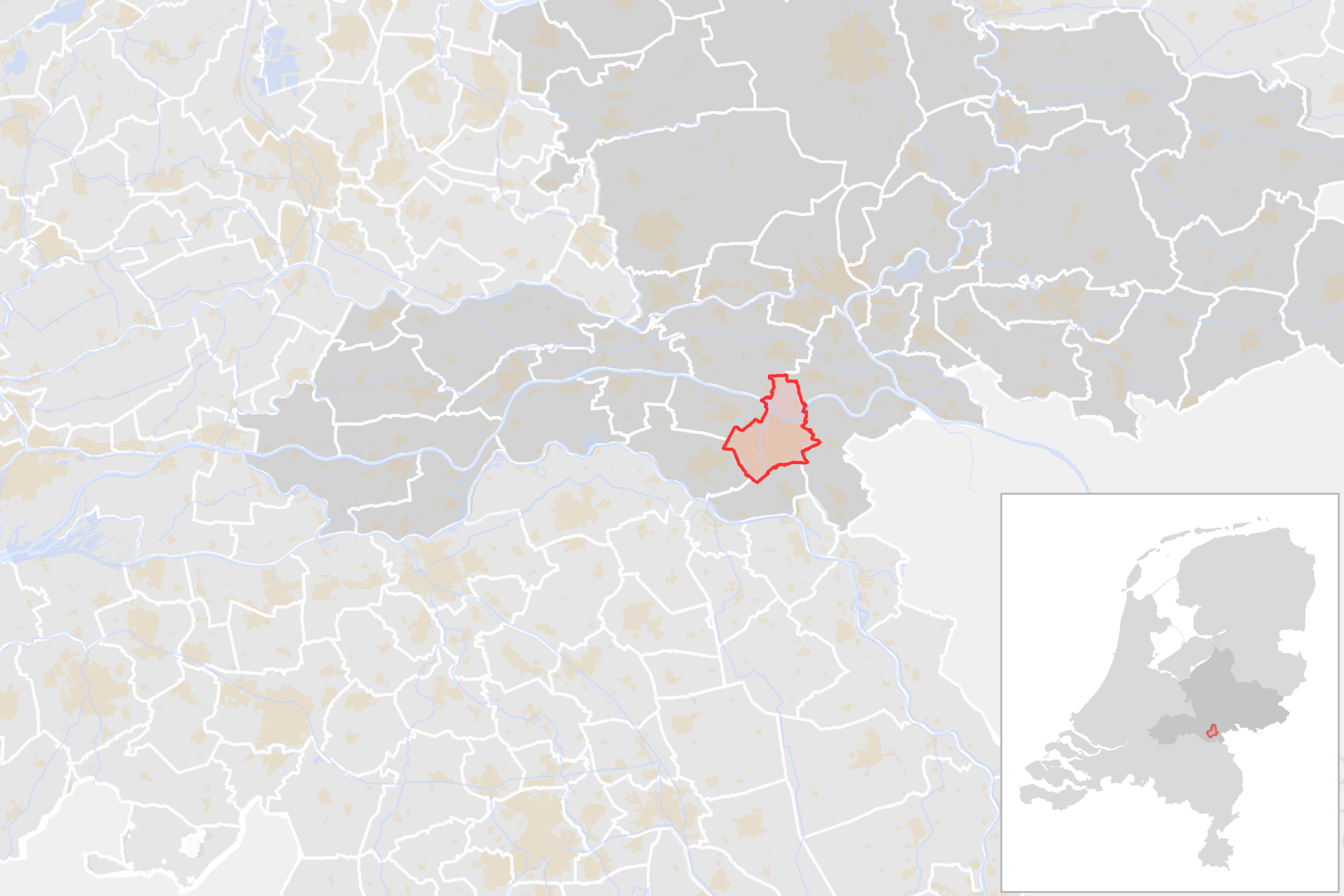 Locator map showing municipality boundary of one of the 390 Dutch municipalities (as of 2016)